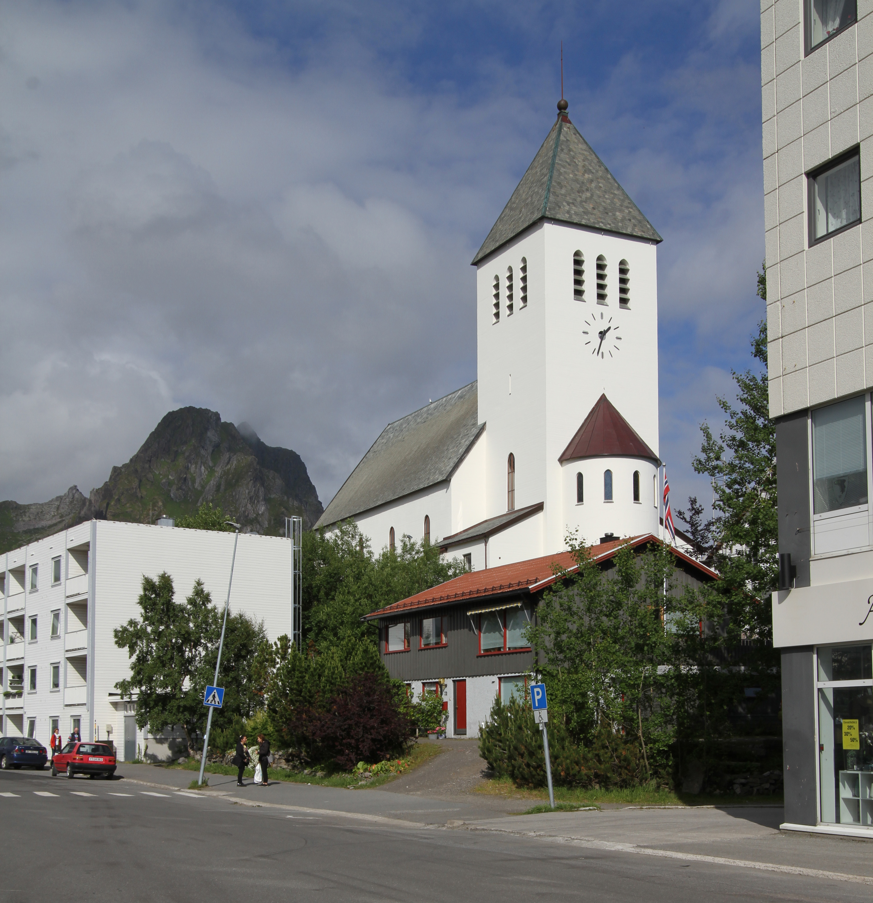 Svolvær church in Norway